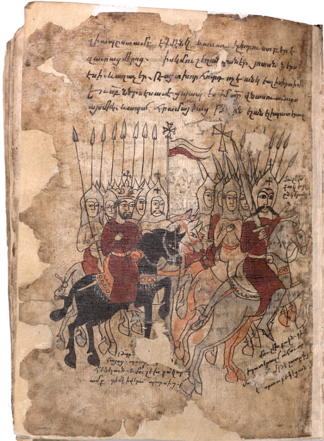 General (Sparapet) Mushegh Mamikonian (right), the King Pap and Armenian cavalry soldiers; “Azat” (azatagund) on the miniature illustrating the great victory at Dzirav over the Persian army of Shapukh II (371 A.D.).